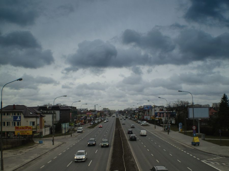 Radzyminska street na WARSZAWSKIM ZACISZU